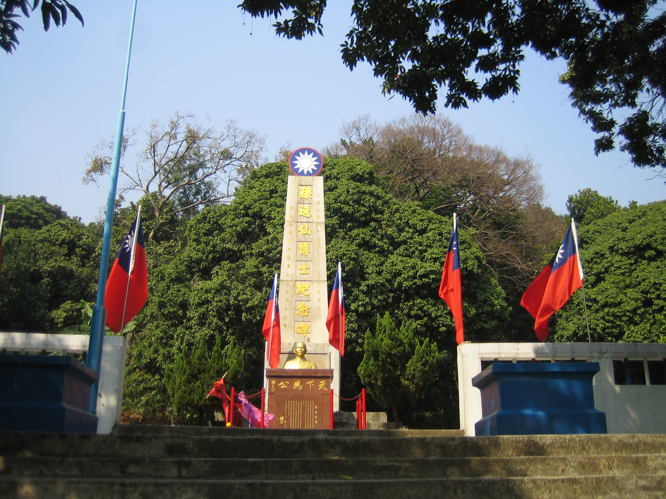 Hung Lau, Tuen Mun, Hong Kong. If you have any questions about the licensing (like cc-by-sa, GFDL), or you want to republish the image without using the licensing shown as below, you are welcome to leave a message on the User Talk Page of my Chinese Wikipedia account.